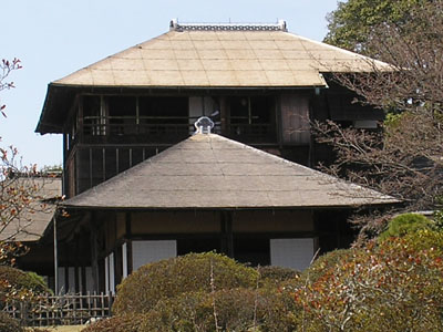 Photo of Kobuntei villa in Kairakuen, Mito, Japan